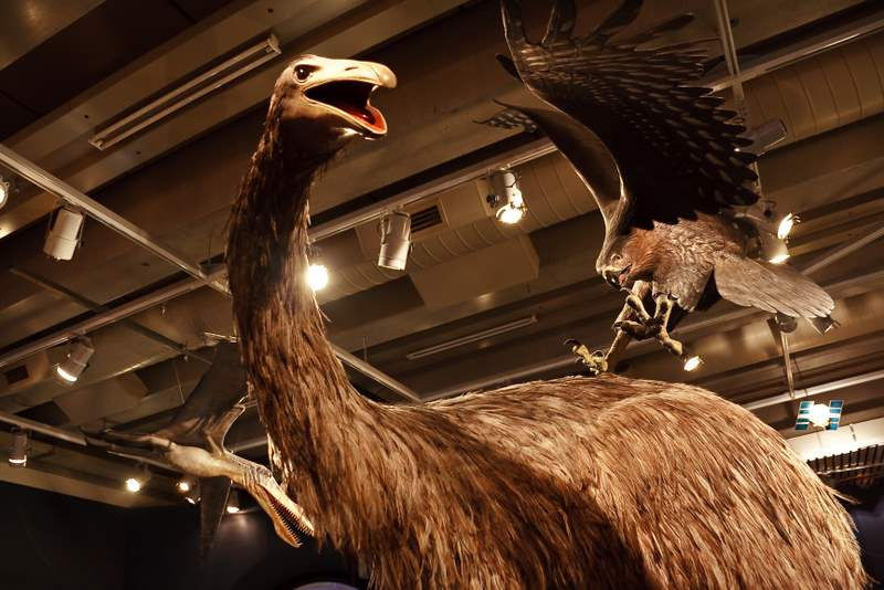 A exhibit of a Haast's Eagle attacking a moa at Museum of New Zealand Te Papa.